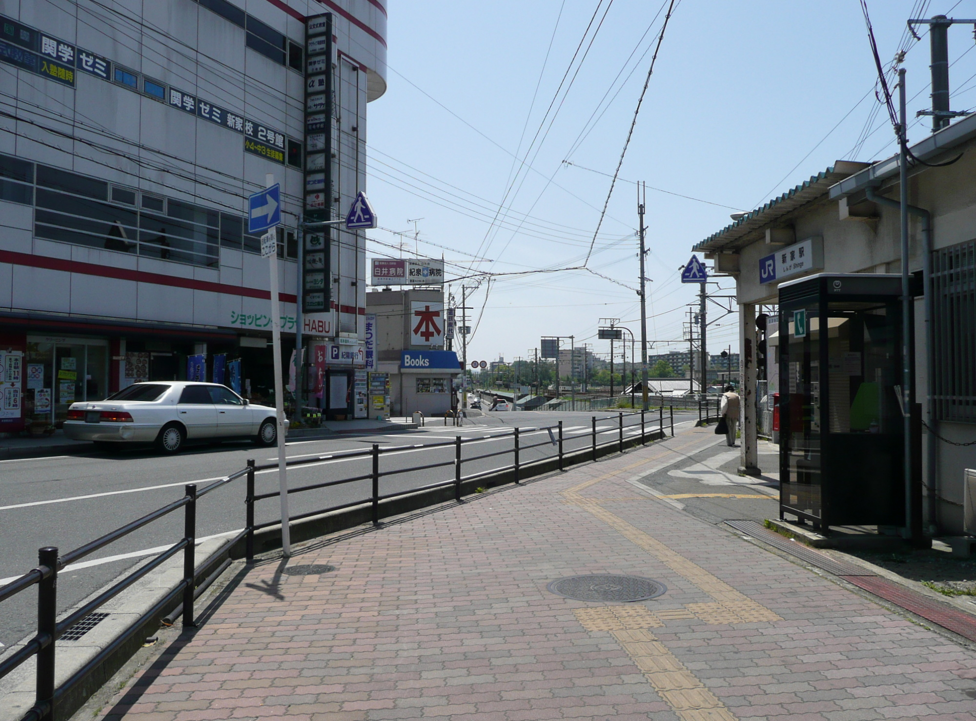 Shinge Station south plaza, JR Hanwa Line.